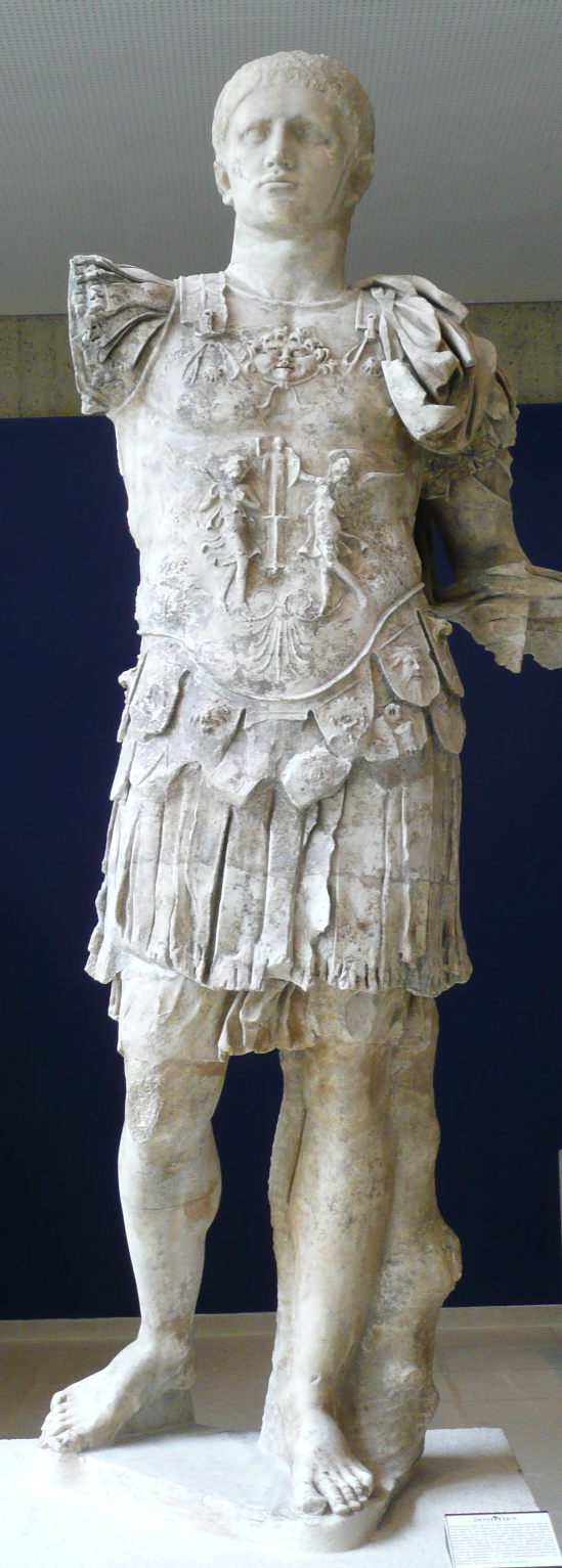 Statue of the Roman Emperor Domitian (r. 81–96), from Vaison-la-Romaine, France.